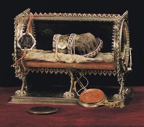 Saint I Stephen King of Hungary's Holy right hand.